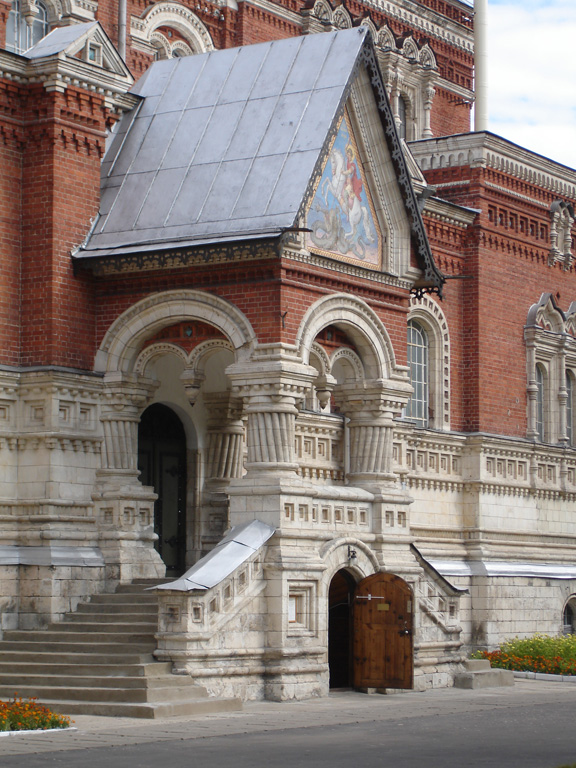 Georgievsky Cathedral in Gus-Khrustalny, arch. Leon Benois